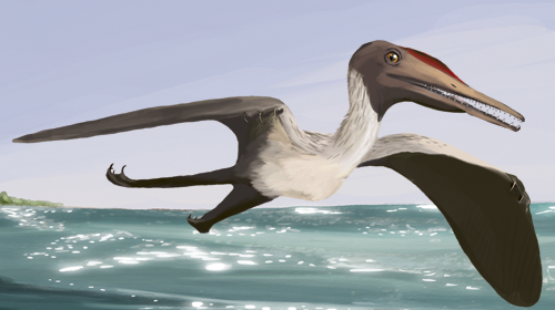 Life restoration of the holotype specimen of Pterodactylus antiquus, by Matthew P. Martyniuk.